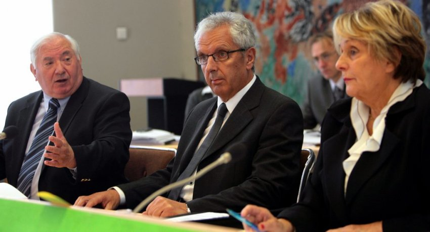 Michel Pelieu : Président du Conseil Général 65